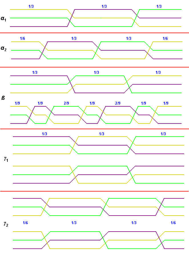 Transposing Schemes for power 2-phase lines.